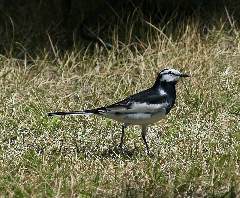 ハクセキレイ Motacilla alba lugens (syn. M. lugens) Location 神戸市中央区 Kobe City Central District Source Opencage